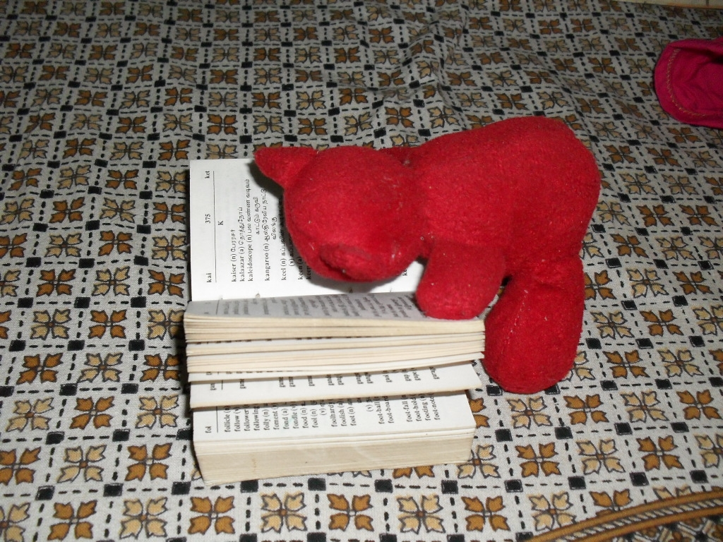 doll with Tamil palm(hand) size dictionary of Tamil Nadu